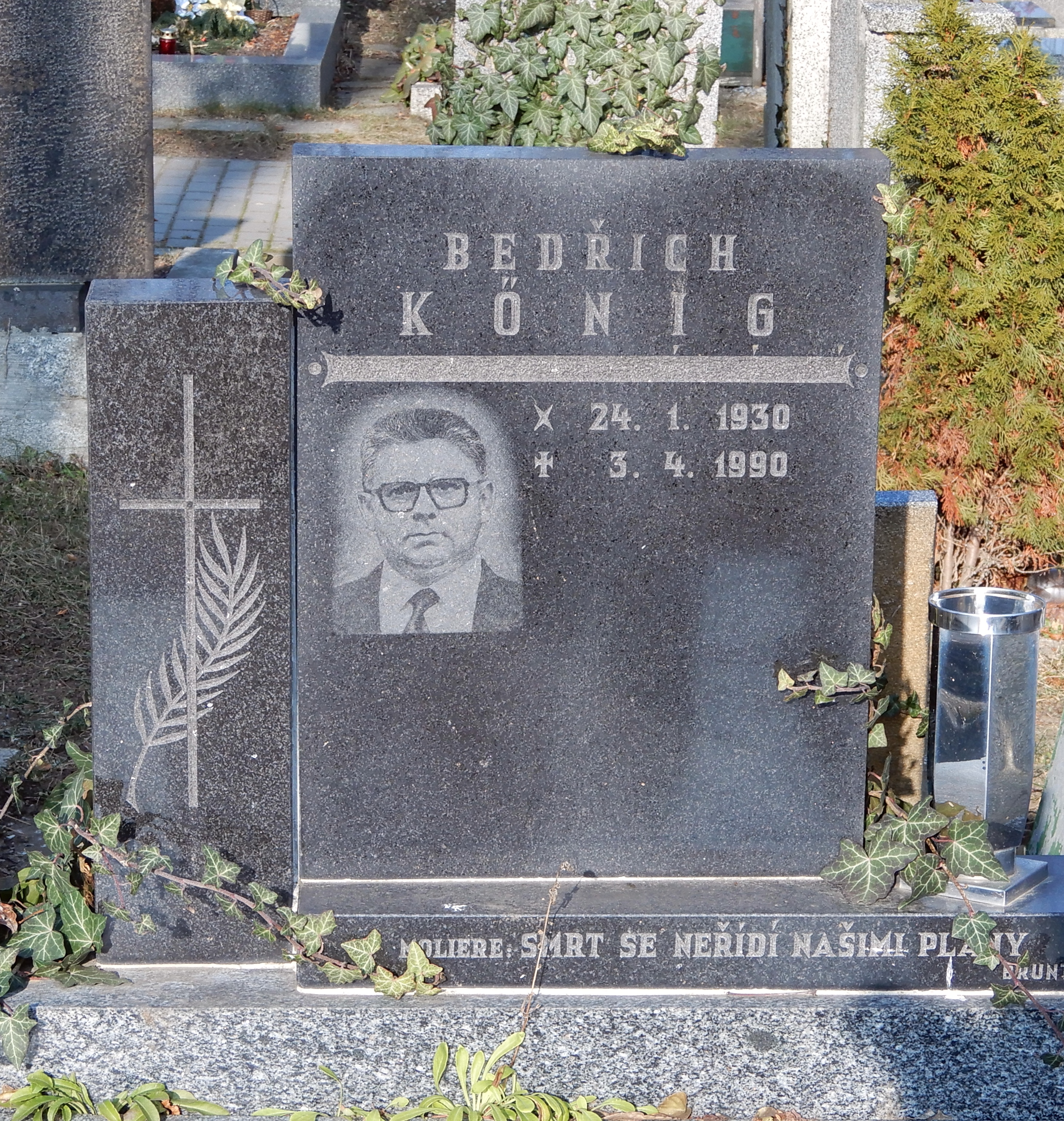 Bedřich König (1930-1980) Czech handball player and handball coach